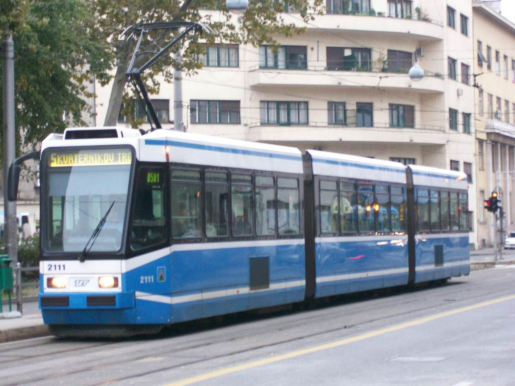 Tram TMK 2100, Zagreb, Croatia